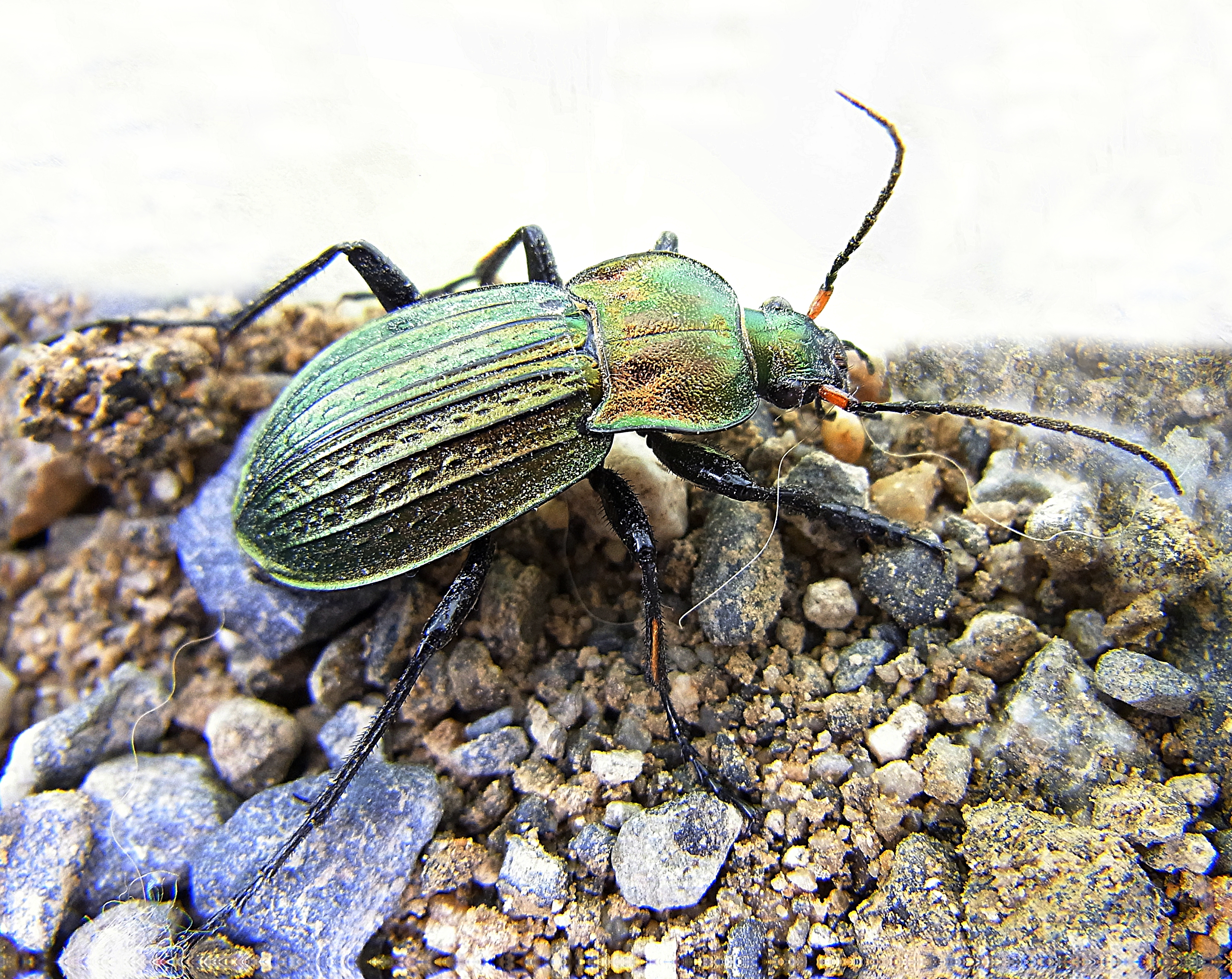 Carabus cancellatus from France, near Tarbes